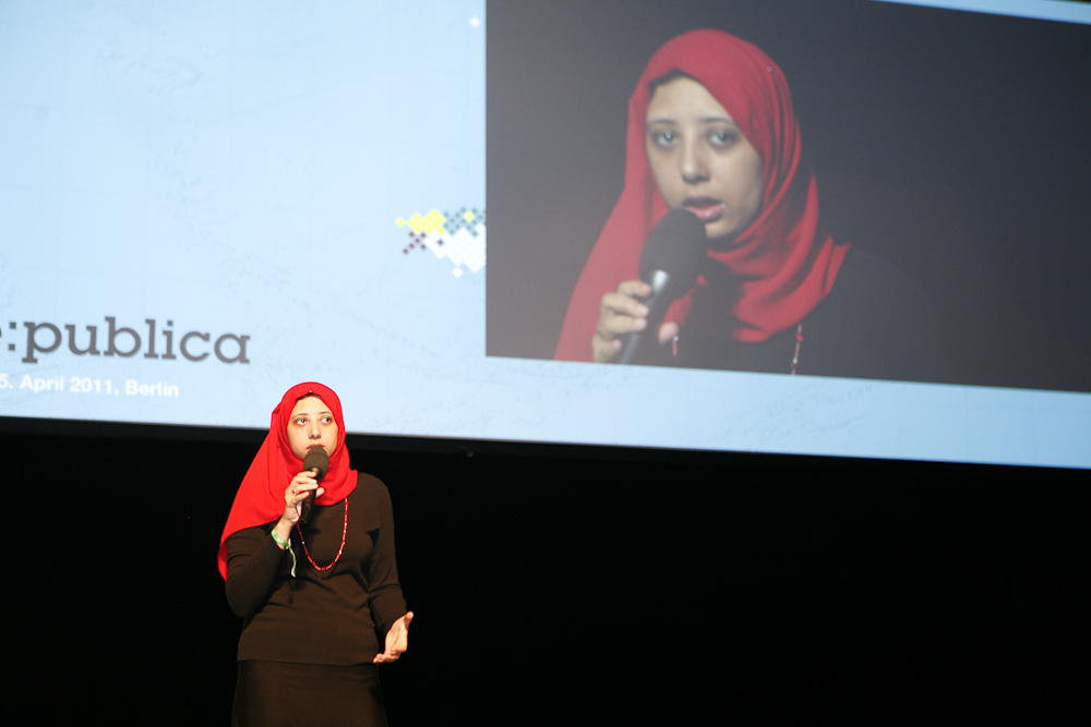 Egyptian blogger Noha Atef on re:publica 2011 in Berlin